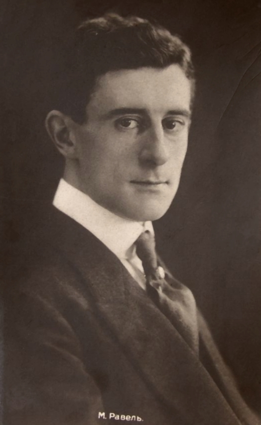 Postcard - 1910